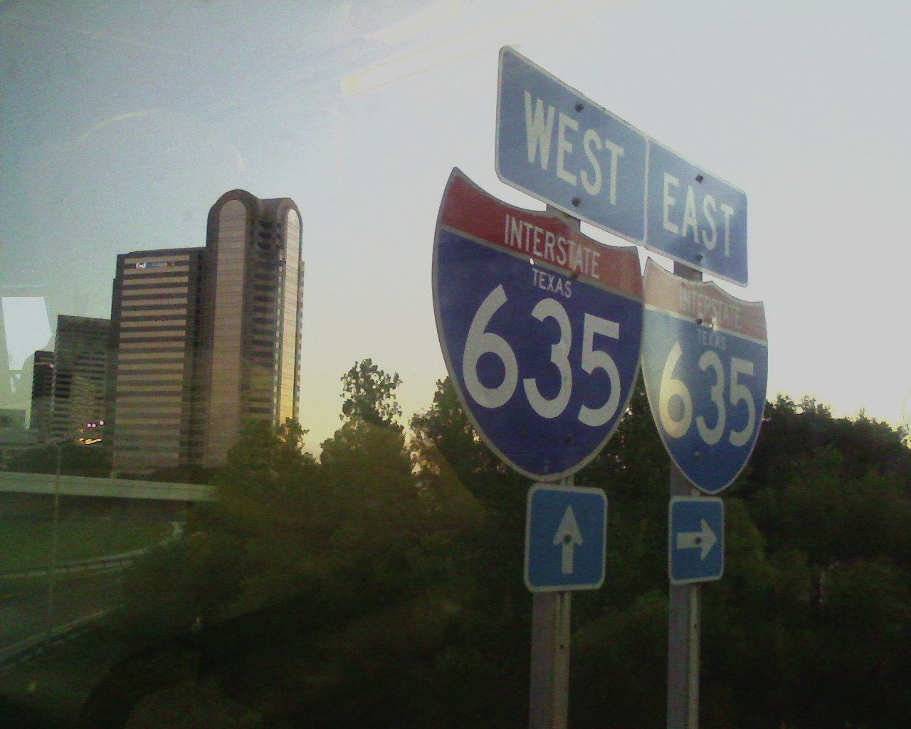 Cameraphone picture of Interstate 635 (Texas) signage on the northbound Dallas North Tollway frontage road.